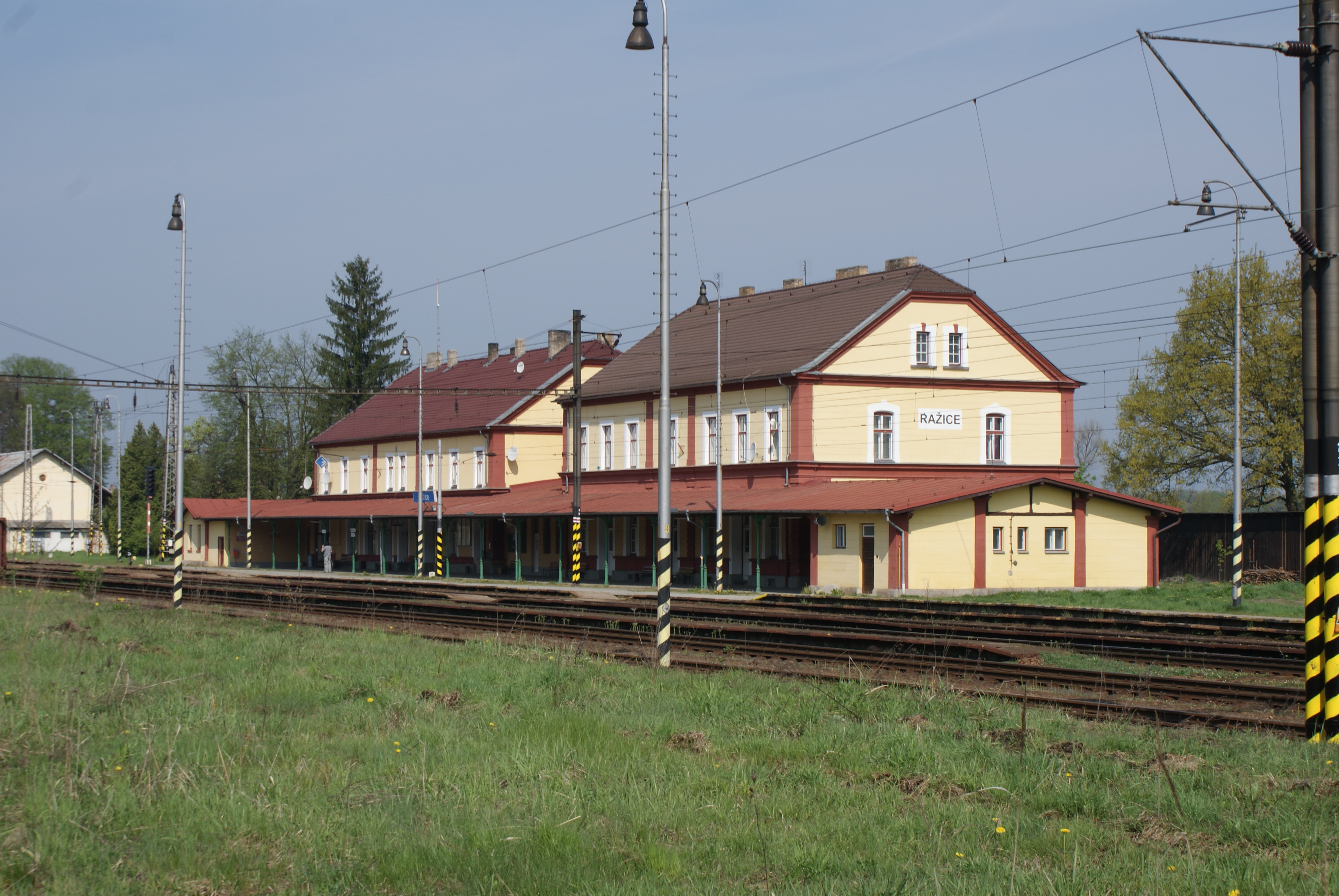 Ražice village in Písek district, Czech Republic. An eastern view of the train station.